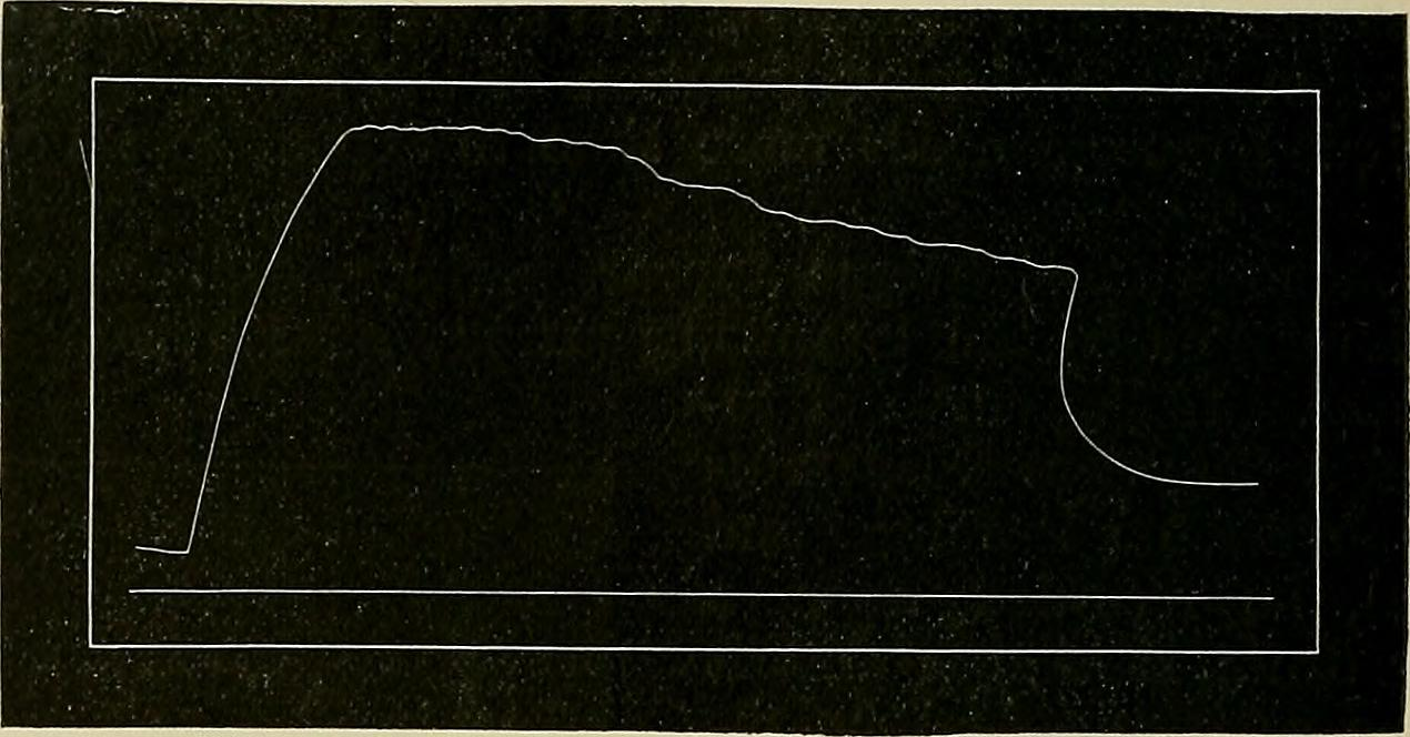 Title: General physiology; an outline of the science of life Year: 1899 (1890s) Authors: Verworn, Max, 1863-1921 Lee, Frederic S. (Frederic Schiller), 1859-1939, ed. and tr Subjects: Physiology Publisher: London, Macmillan and co., limited New York, The Macmillan company Text Appearing Before Image: Fig. 237.—Curve of fatigue ; decrease of theheight of the curves with numerous suc-cessive contractions of the flexor musclesof the fingers. (After Mosso.) 464 GENERAL PHYSIOLOGY fatigued specimens only Dobies line was to be seen clearly, andthe whole contents of the segments stained uniformly without anydifferentiation of the discs being noticeable (Fig. 239). But thegranules, or sarcosomes, lying in the sarcoplasm between the Text Appearing After Image: Fig. 238.—Curve of tetanus of a fatigued muscle of a frog. individual fibrillae were enormously enlarged in the fatigued, incomparison with the resting, muscle. It would lead us too far toconsider in detail the significance of these changes. Hodge (92),G. Mann (94), and Lugaro (95), have recently made known distinctmicroscopic phenomena of fatigue in the ganglion-cells of mammals